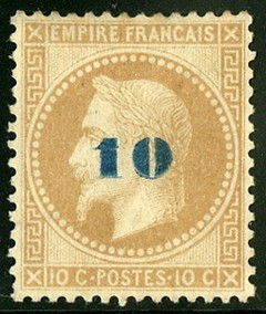 Stamp France Napoleon III 1870 / non emis France 10 sur 10c bistre Napoleon laure